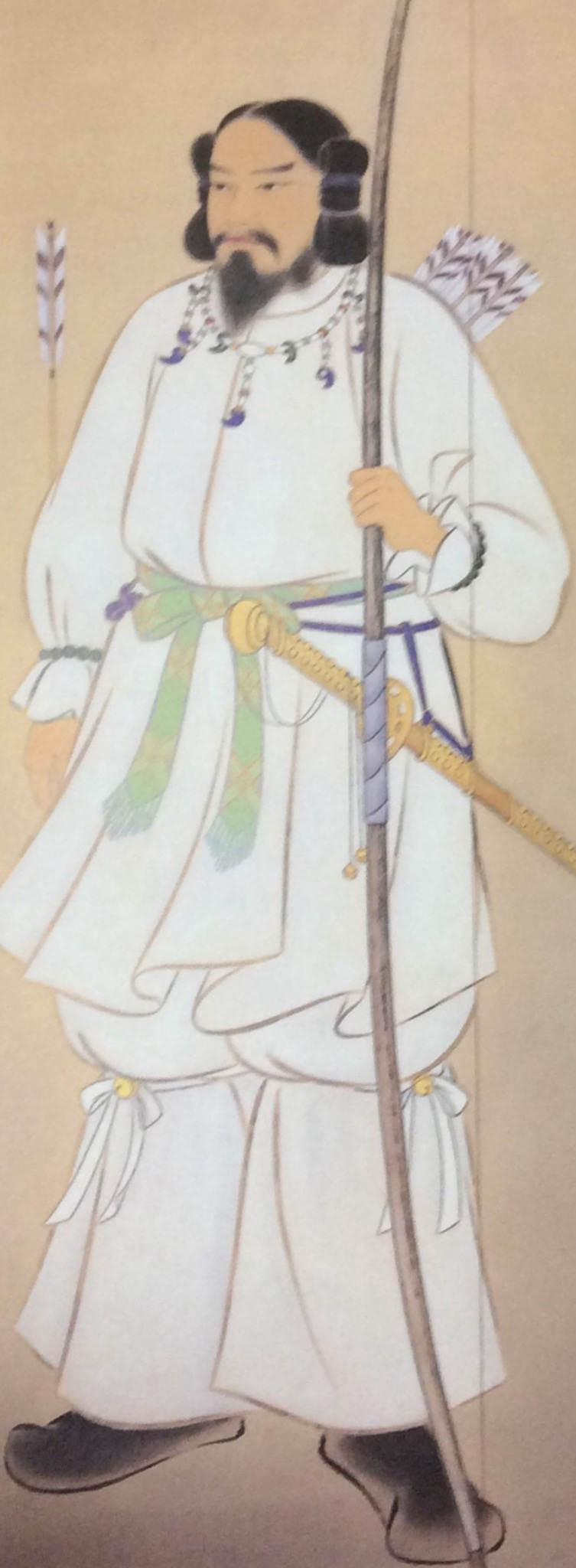 God of War, Kashihara shrine. Emperor Jinmu with a bow.